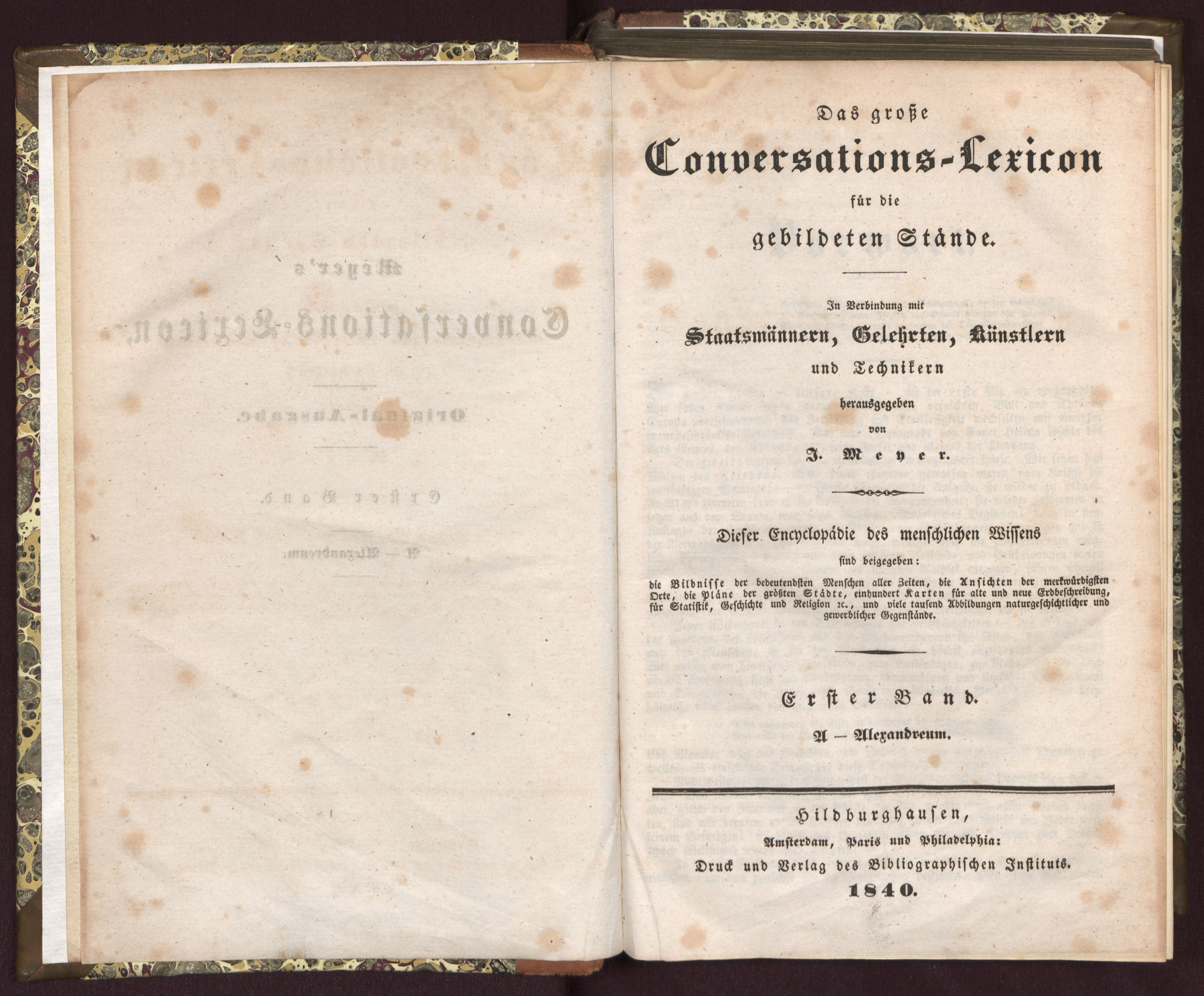 Title page of "Das große Meyer's Conversations-Lexicon für die gebildeten Stände.", a German encyclopedia published in 1840.